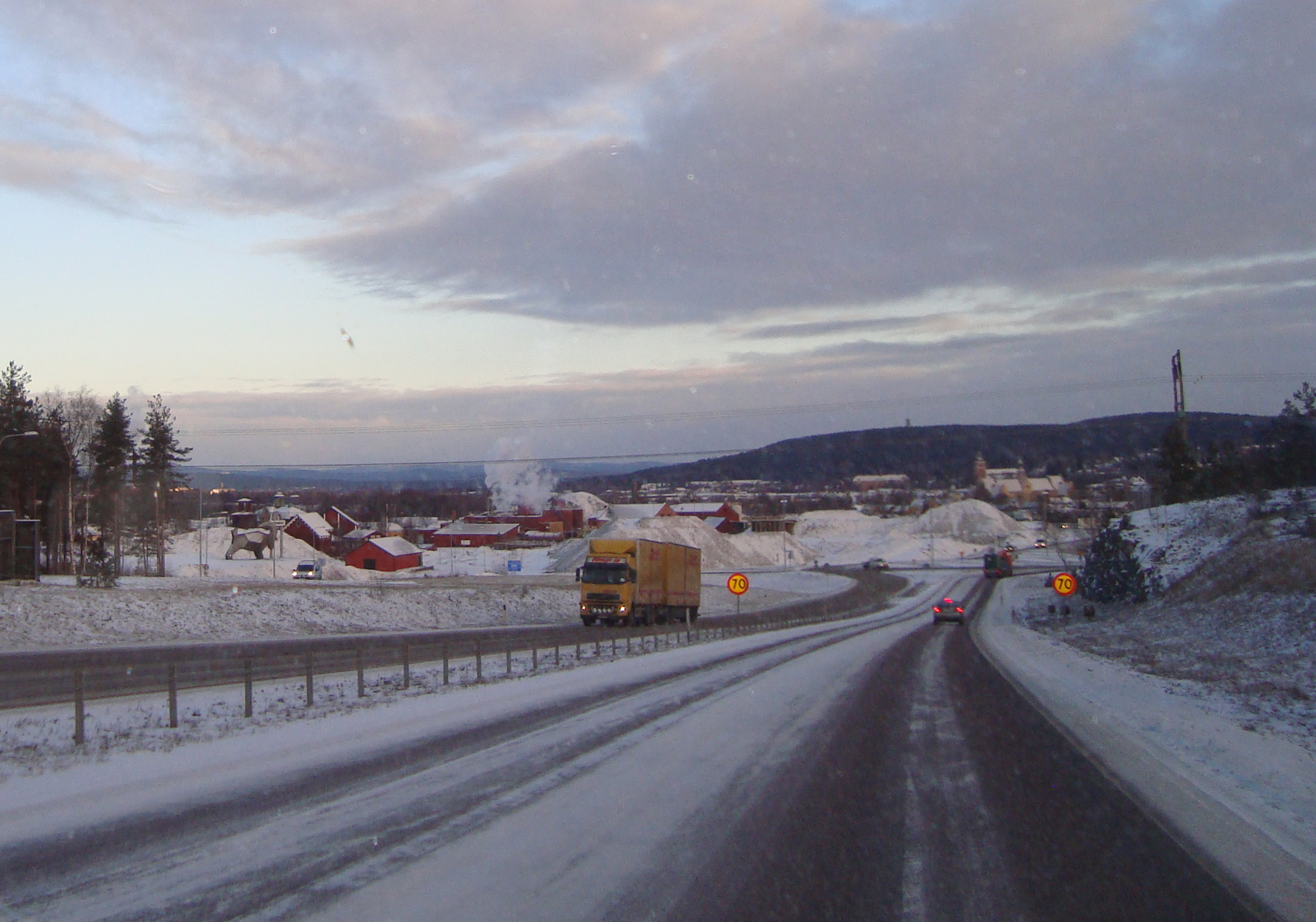 National road 50, near the old copper mine of Falun, Sweden.